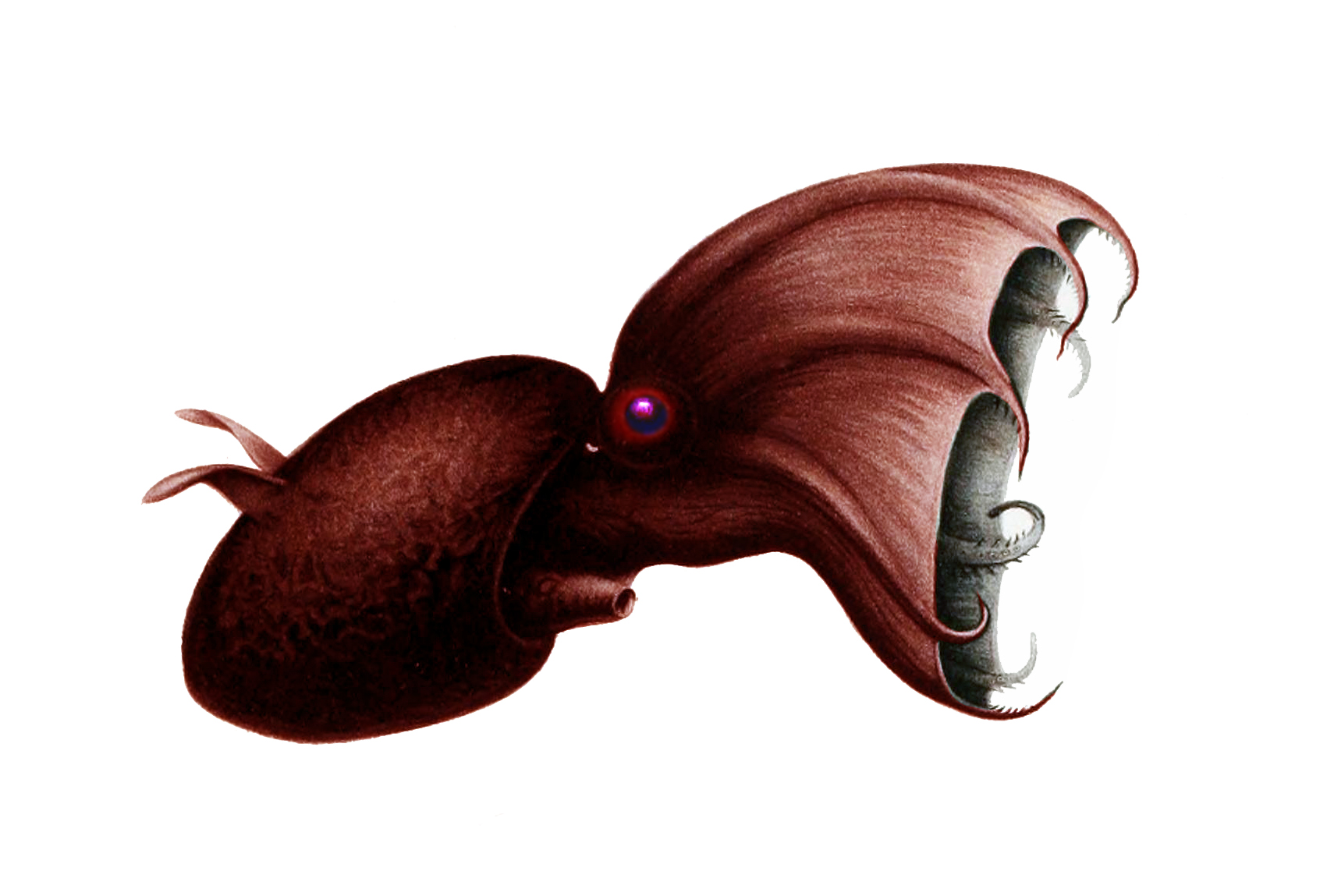 Vampyroteuthis infernalis